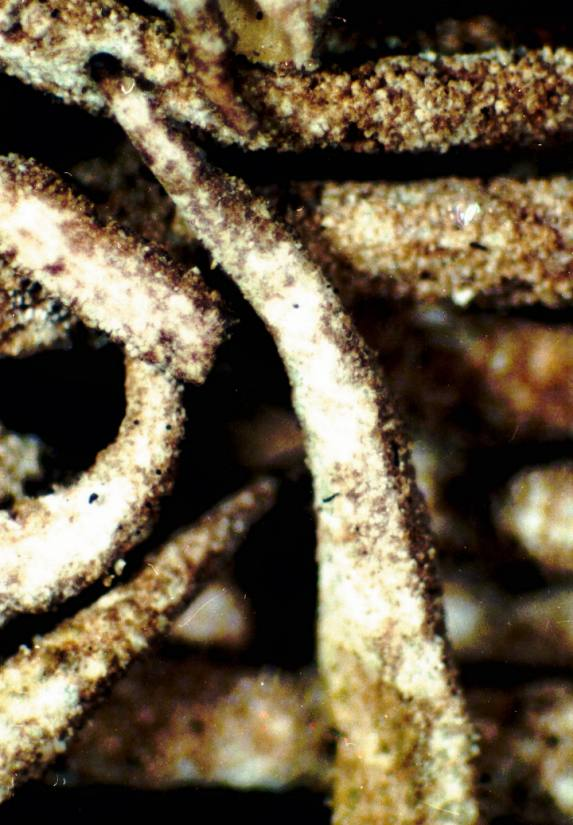 Cladonia decorticata (Flörke) Sprengel, 1827 (photograph of a herbarium specimen taken through a dissecting microscope (x40) showing the tip of a podetium) Growing on soil in Jack Pine woods near Crumley Creek off US-68, Cheboygan County, Michigan, USA; collected and identified by Richard E. Riefner (No. 81-455, 14 Jul 1981); specimen is now in the Lichen Herbarium of the New York Botanical Garden.